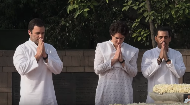 (L to R)ː Rahul Gandhi, Priyanka Gandhi, Robert Vadra